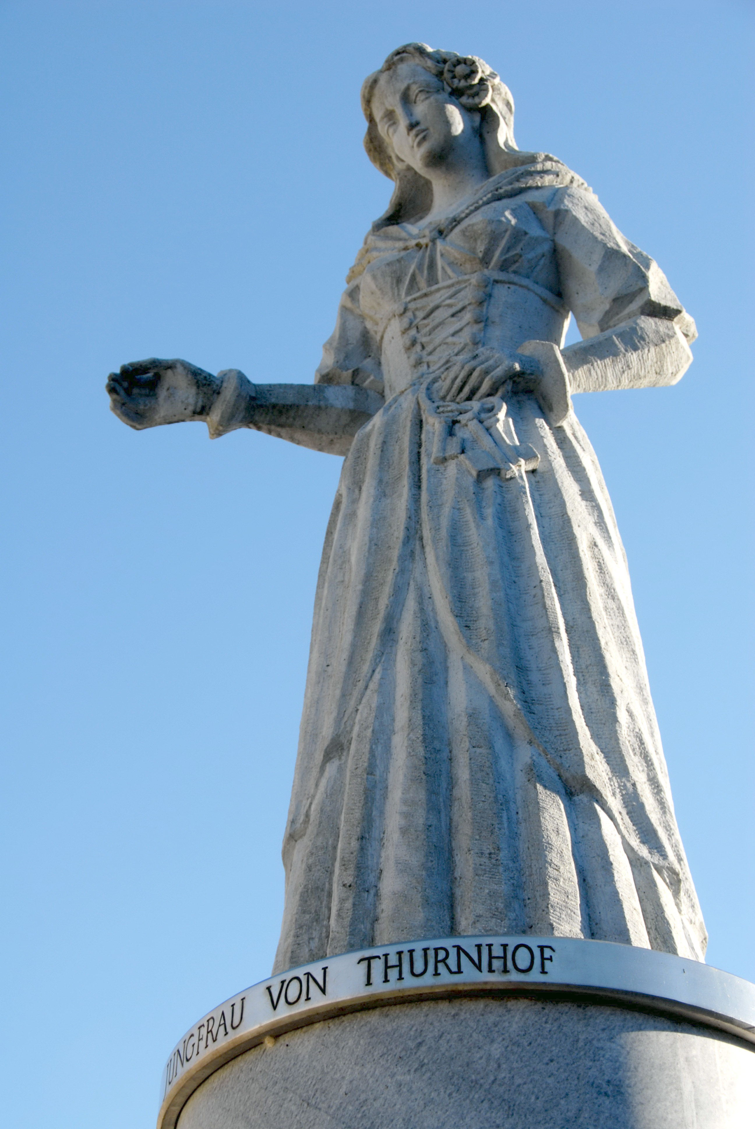 Statue "Virgin of Thurnhof" on main square of Weitensfeld, municipality Weitensfeld im Gurktal, district Sankt Veit an der Glan, Carinthia / Austria / EU